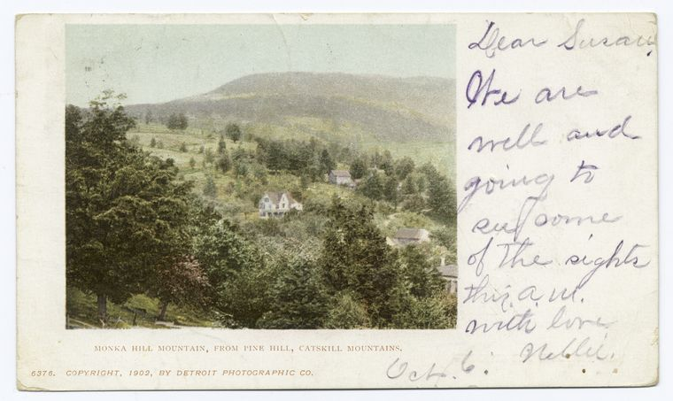 Digital ID: 62615. 1902-1903 Source: Detroit Publishing Company postcards / 6000 Series ( Repository: The New York Public Library. Photography Collection, Miriam and Ira D. Wallach Division of Art, Prints and Photographs. See more information about and others at Persistent URL: Rights Info: No known copyright restrictions; may be subject to third party rights (for more information